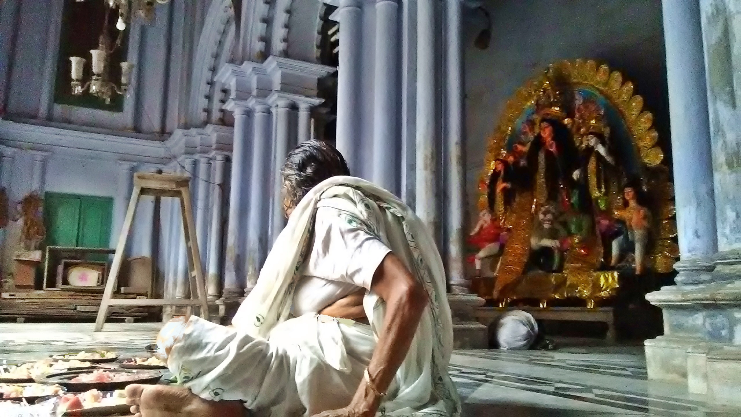 Elder authority of my in laws family distributes the prasad ( puja offerings ) supervised by the Top Authority Herself ( Durga ) / this yearly baripuja ( " puja at home " ) started 1825 and starts from Pratipad , the day after black moon